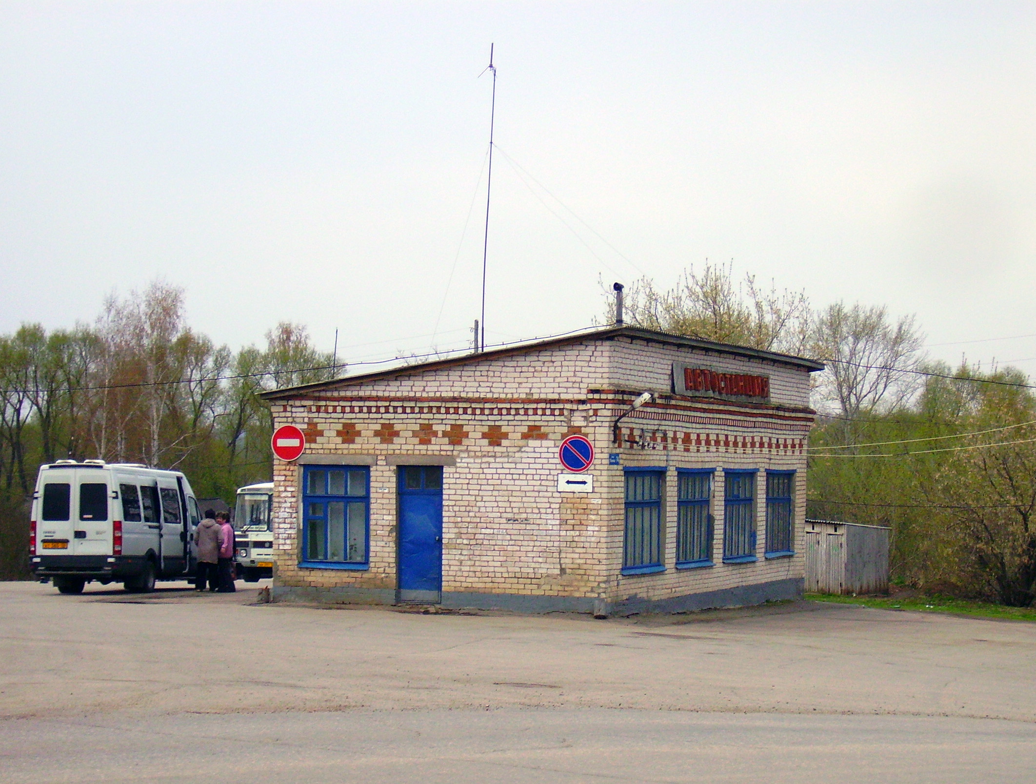 Town Bus Station in Knyaginino